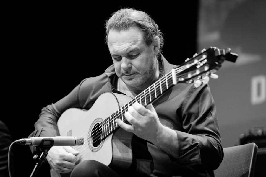 Raphaël Faÿs with Jon Larsen et al at Cosmopolite. The concert was part of Djangofestivalen and took place on 25. January 2019 in Oslo. Lineup:Jon Larsen (guitar)Gildas Le Pape (guitar)Svein Aarbostad (double bass)Raphaël Faÿs (guitar)